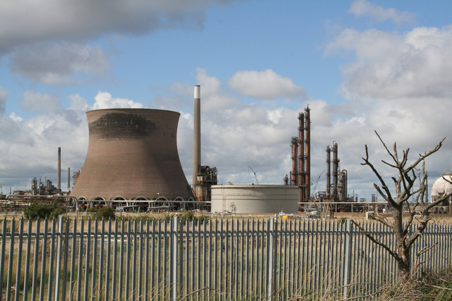 Wilton International Chemical works, formerly ICI